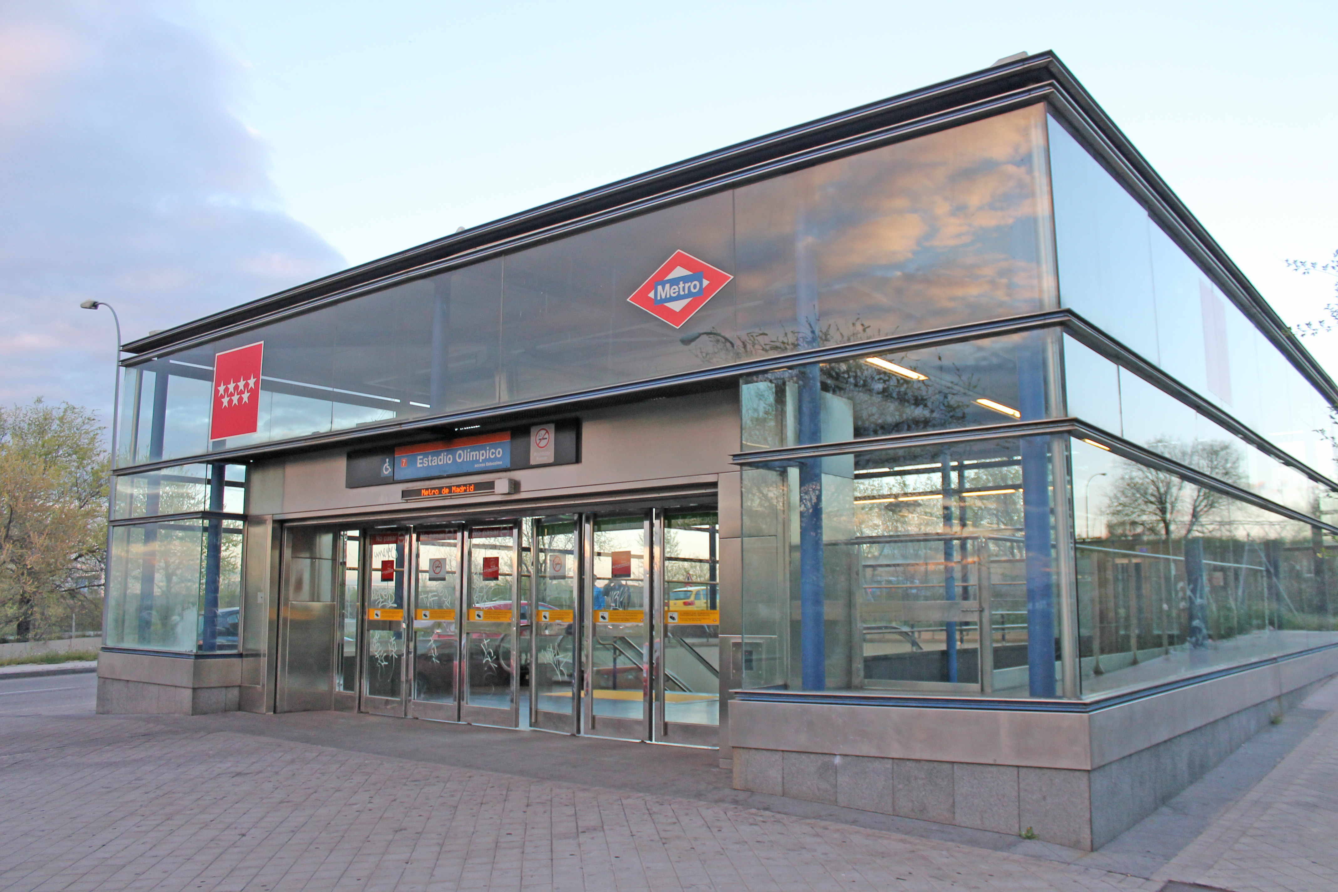 Entrance of Estadio Metropolitano metro station in Madrid (Spain).